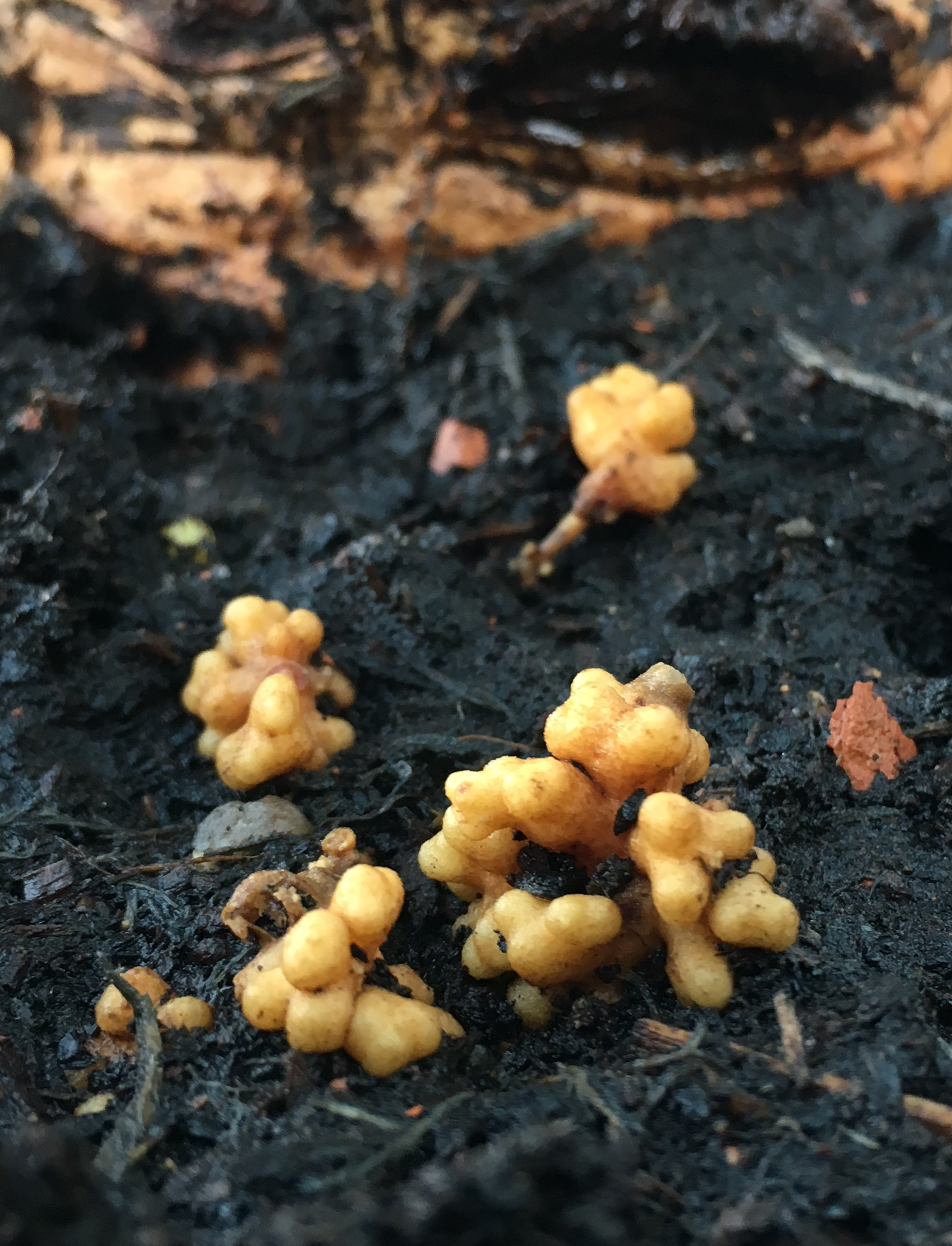 Cycas thouarsii's coralline roots harbour nitrogen-fixing cyanobacteria.